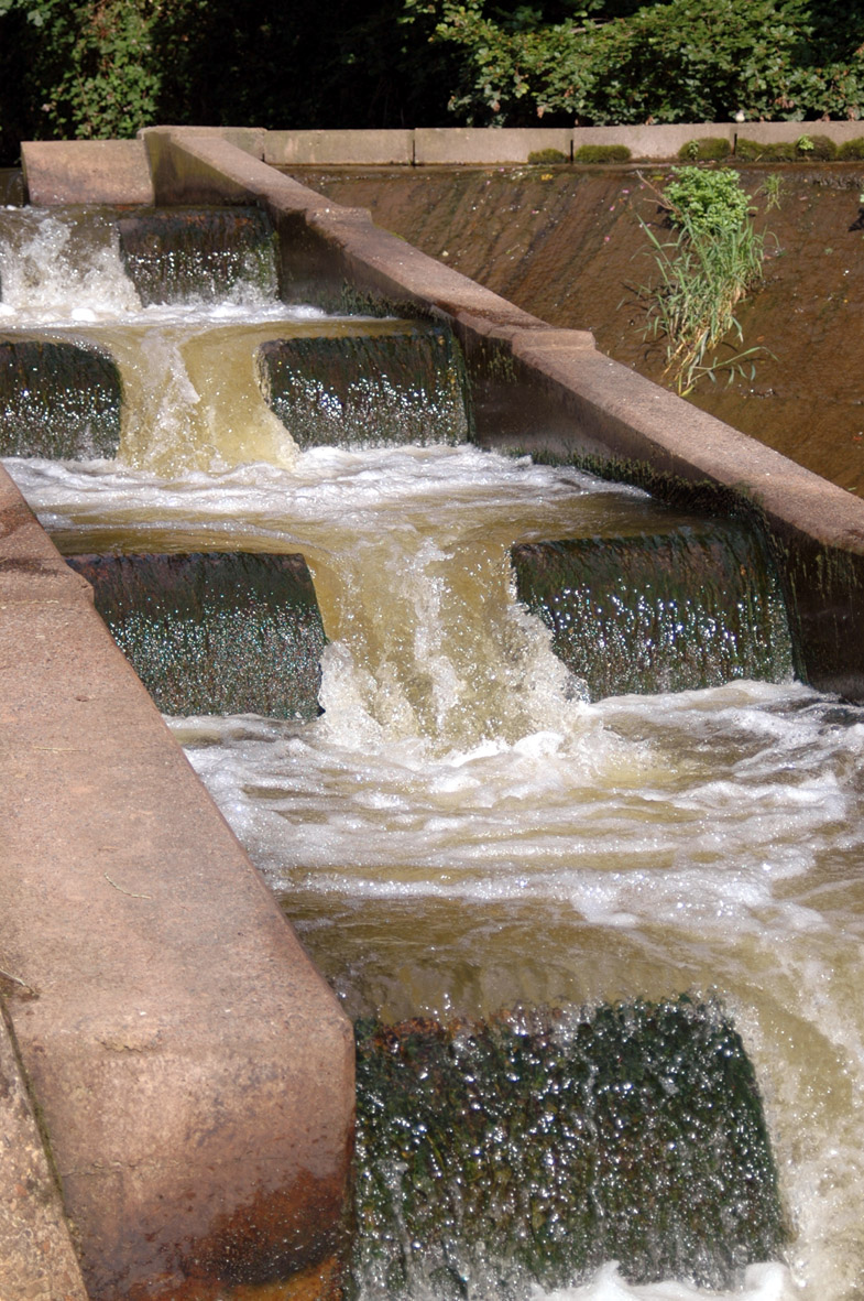 Fish pass ie staircase, avoiding weir; River Otter, Otterton, Devon, UK. Construction type: Denil fish ladder.